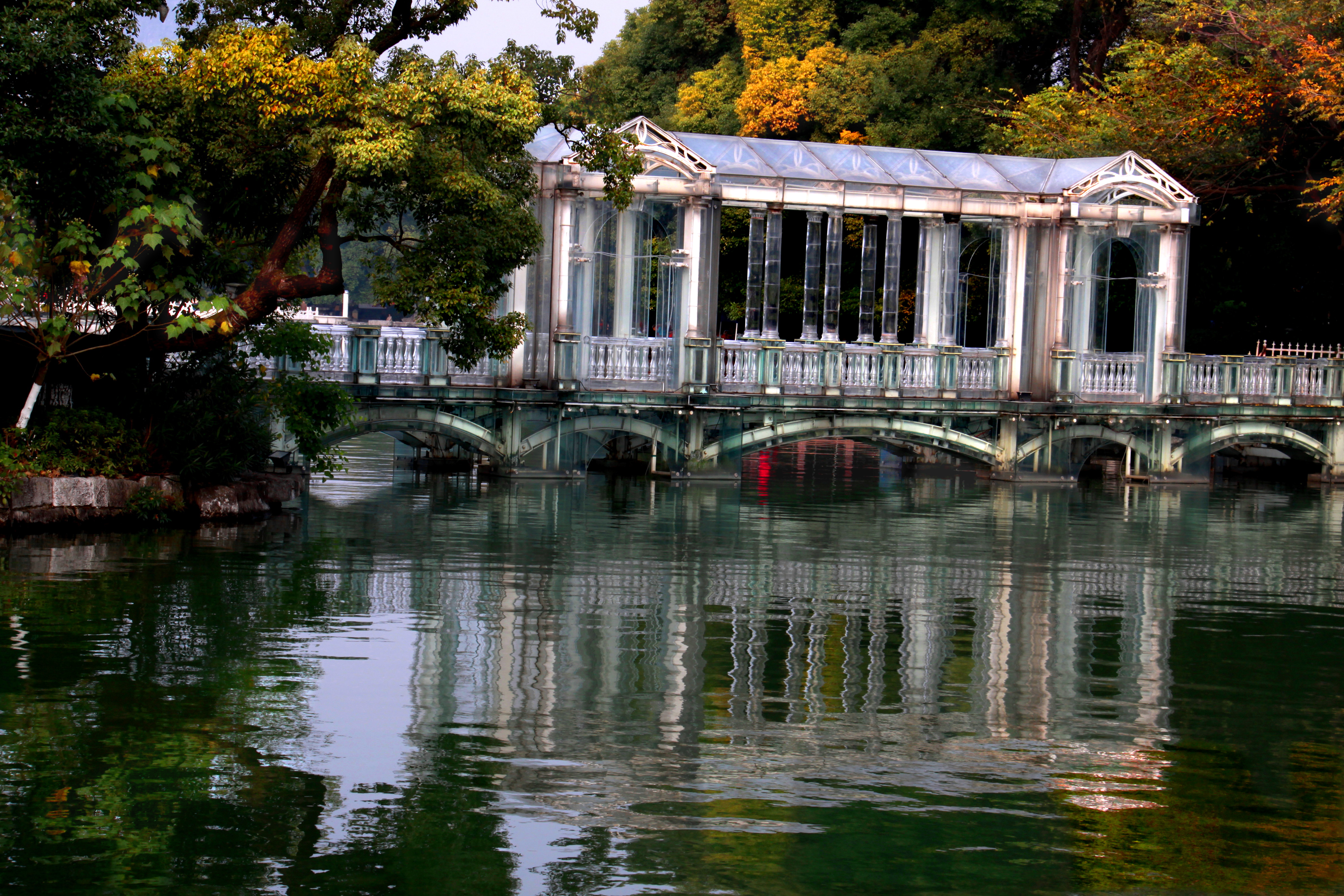 A Glass Bridge from Guilin,China